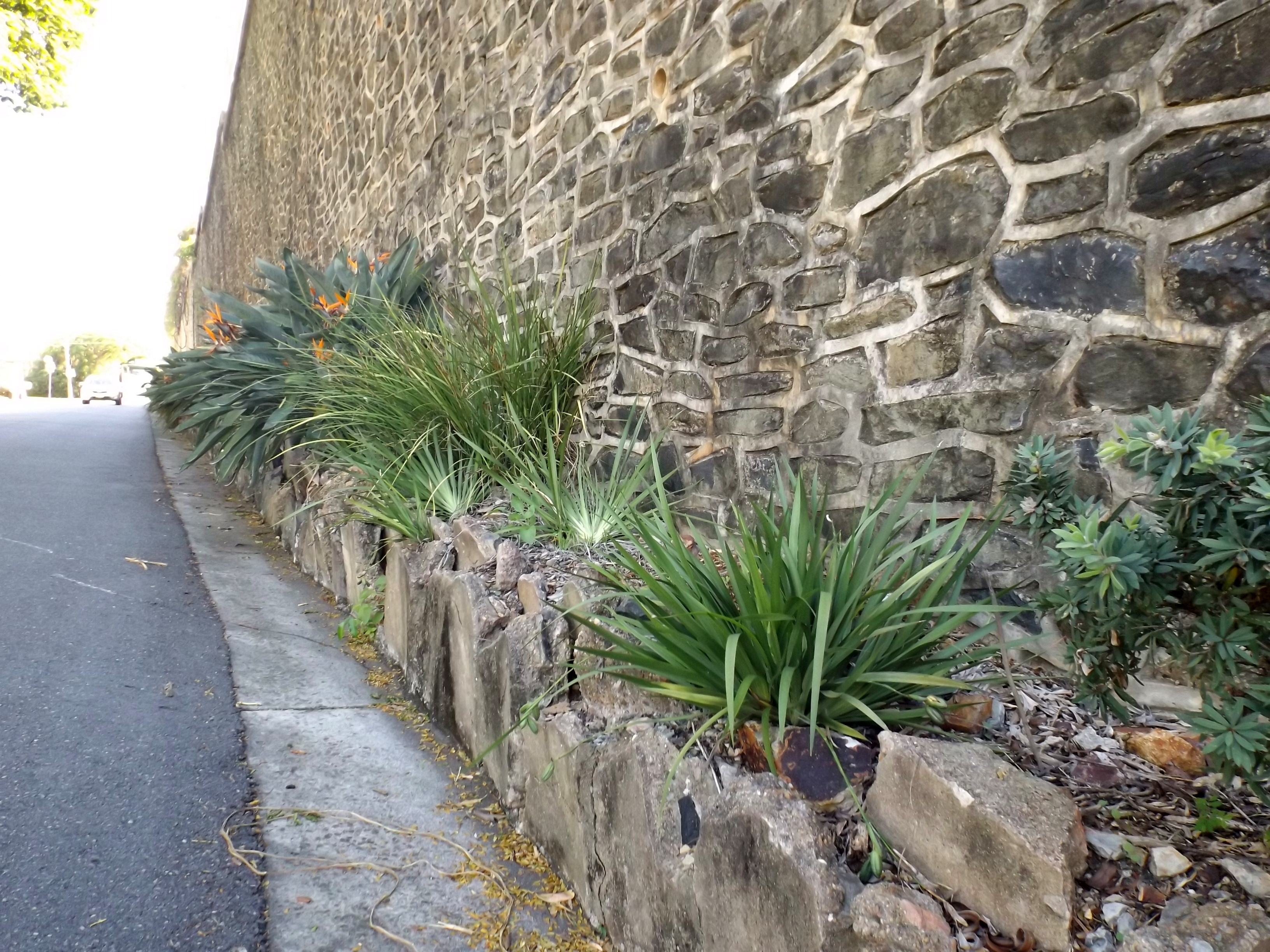 Photo of Manly Retaining Wall plantings at Manly, Brisbane, Queensland, Australia.